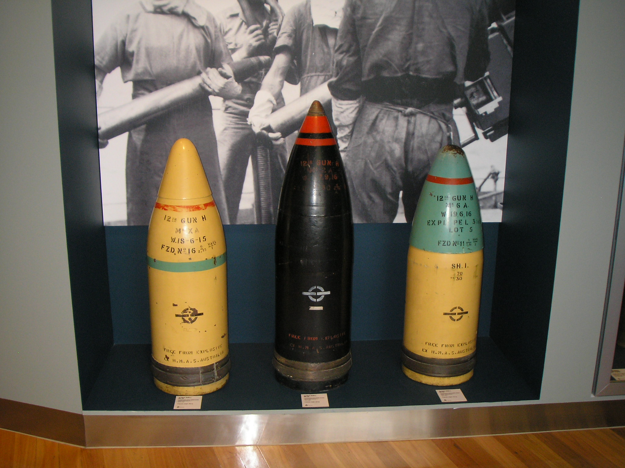 Three of HMAS Australia's 12 inch shells on display at the Royal Australian Navy's museum at Garden Island in Sydney